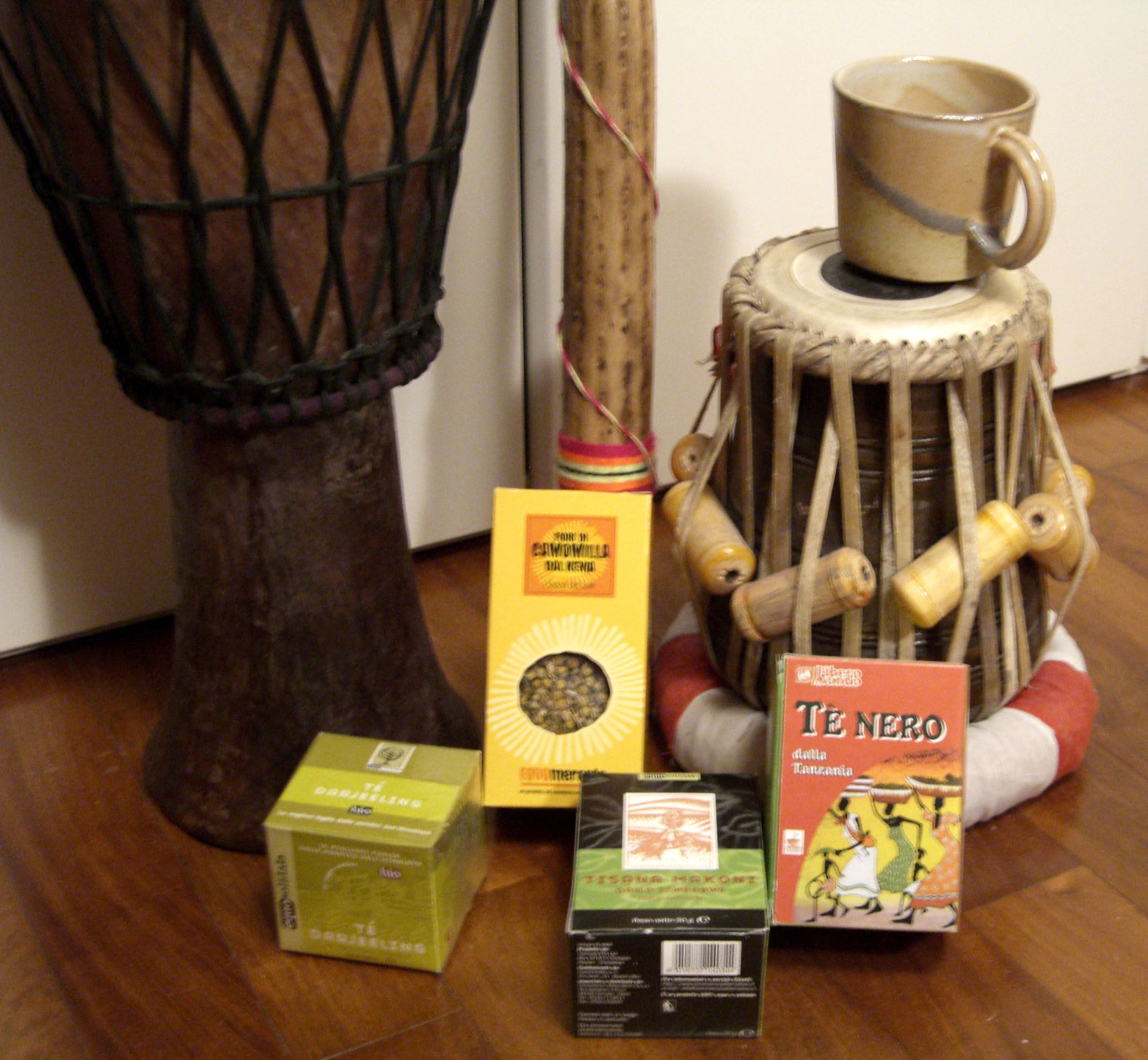 African artigianal fair trade products (Musical instrument and Tea).